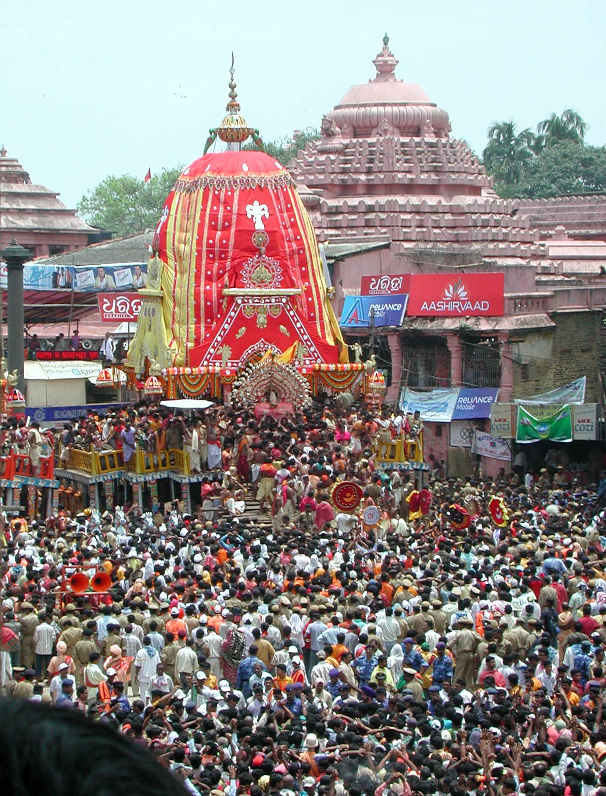 Rath Yatra in Puri, Orissa, India. God is being carried up the ramp into his cart.